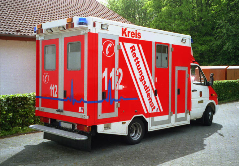 German ambulance ("Rettungswagen"), from the "Kreis Gütersloh" (county of Guetersloh) in North Rhine Westphalia. The GSF company manufactured the patient treatment section of the vehicle.